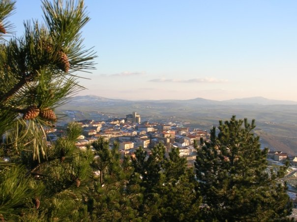 View of Greci (Av)